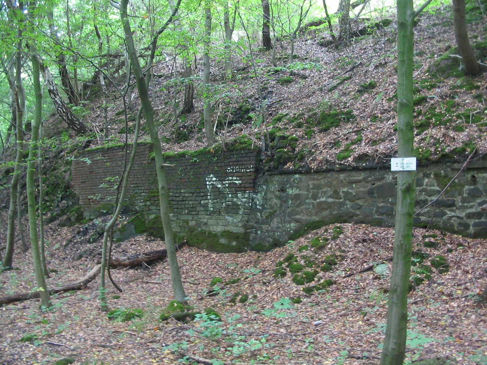 former loading platforn of coal mine Zeche Elisabethenglück in Witten